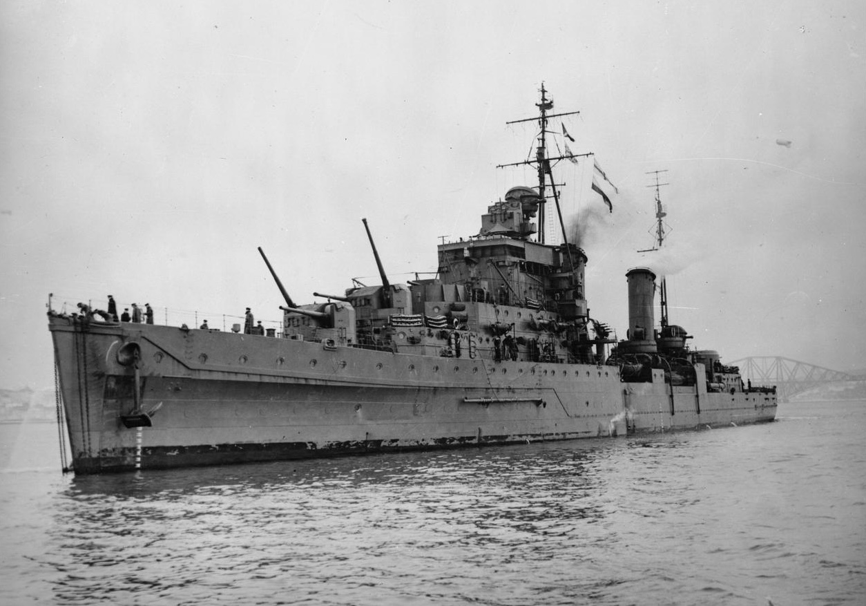 British light cruiser HMS DIDO at anchor on the Firth of Forth.